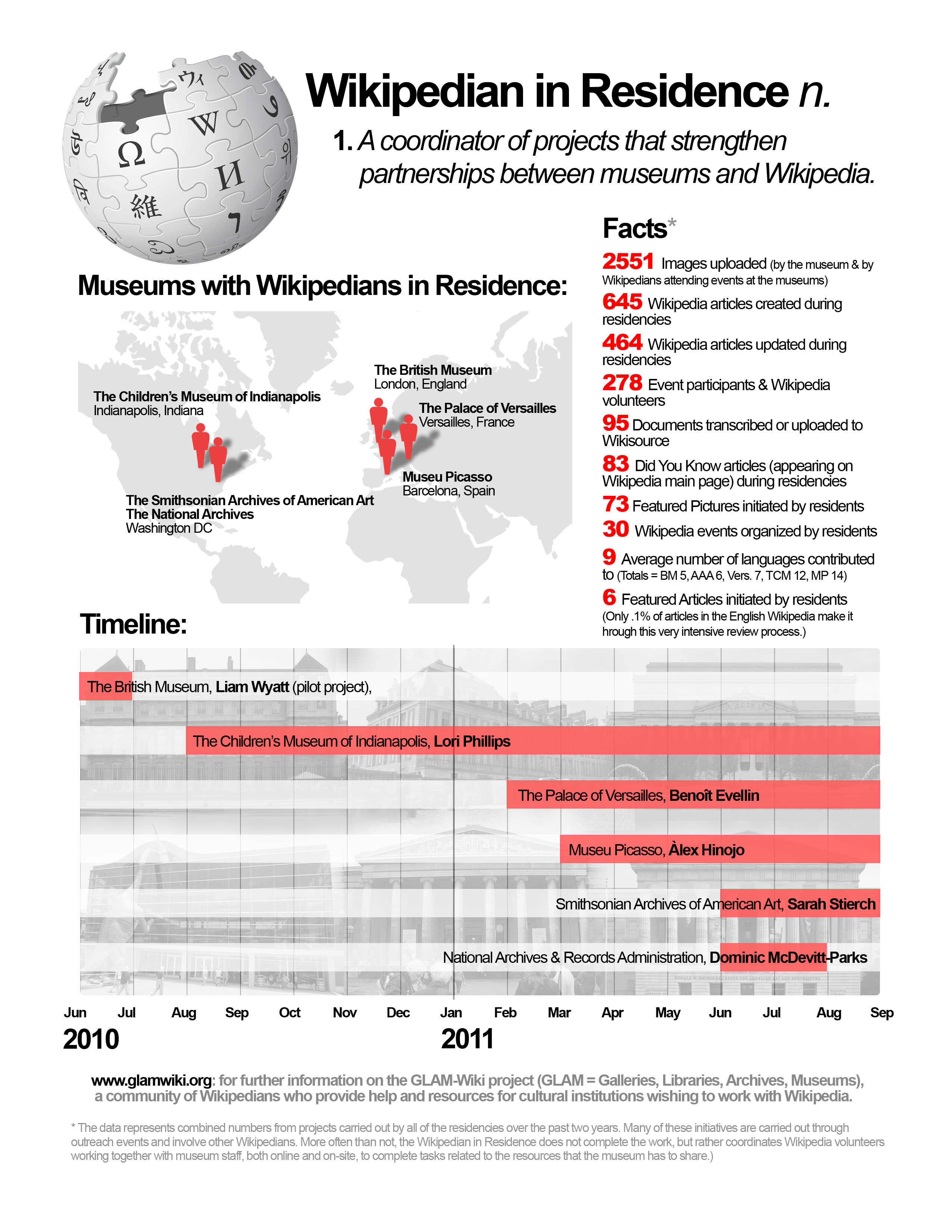 An infographic depicting information about most of the Wikipedian in Residence projects taking place between 2010 and 2011. Data was compiled July 15, 2011.